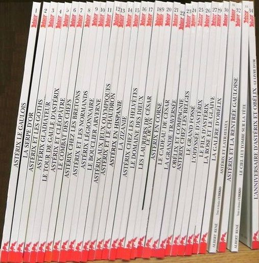 Asterix books.